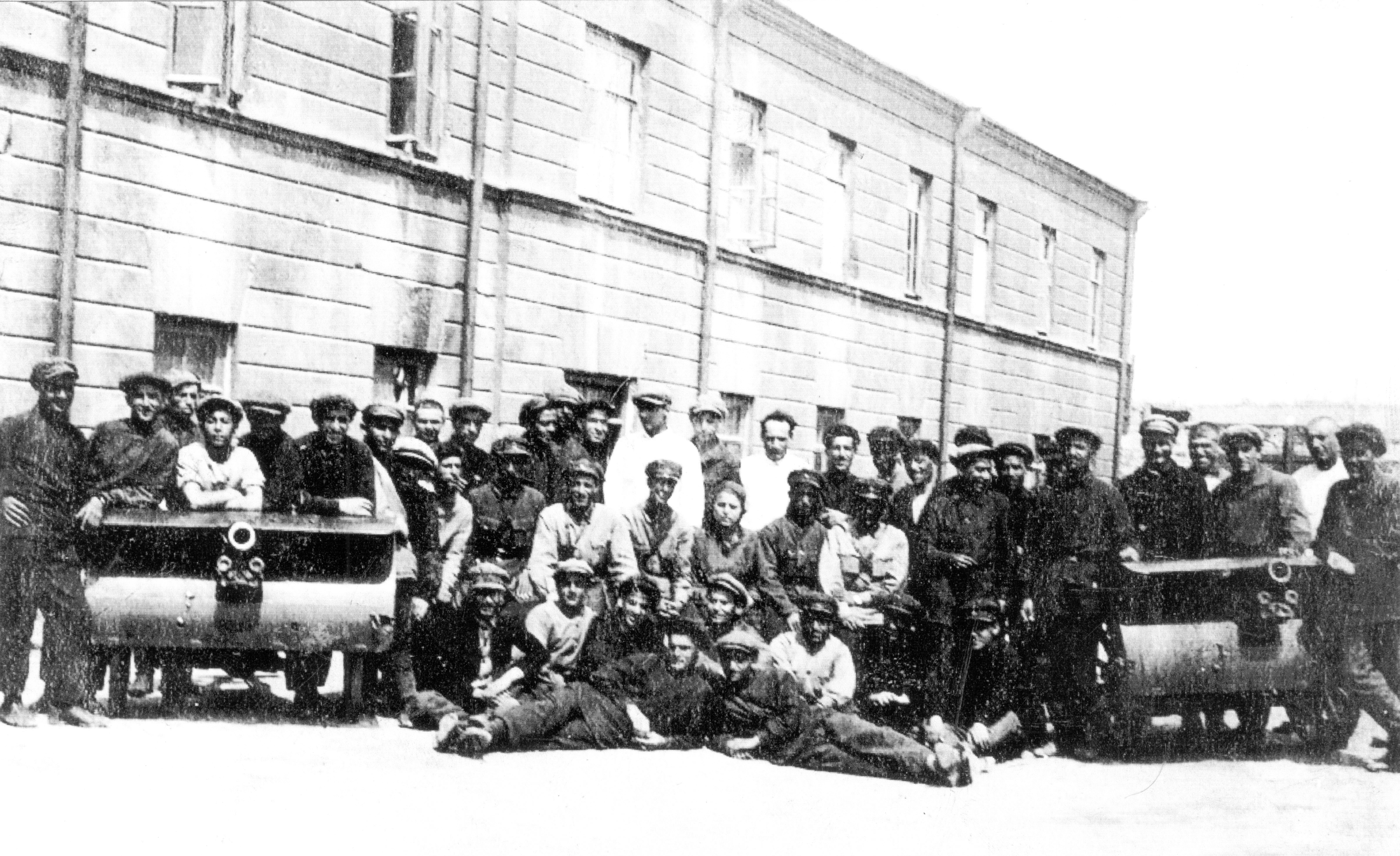 1st Armenian rifle division artillery group led by Christophor Araratov